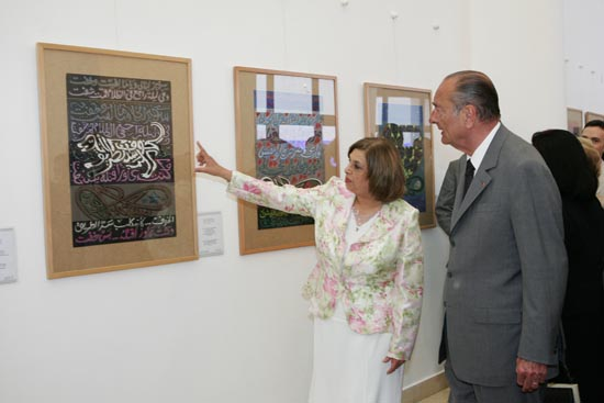 UFE Painting exhibition